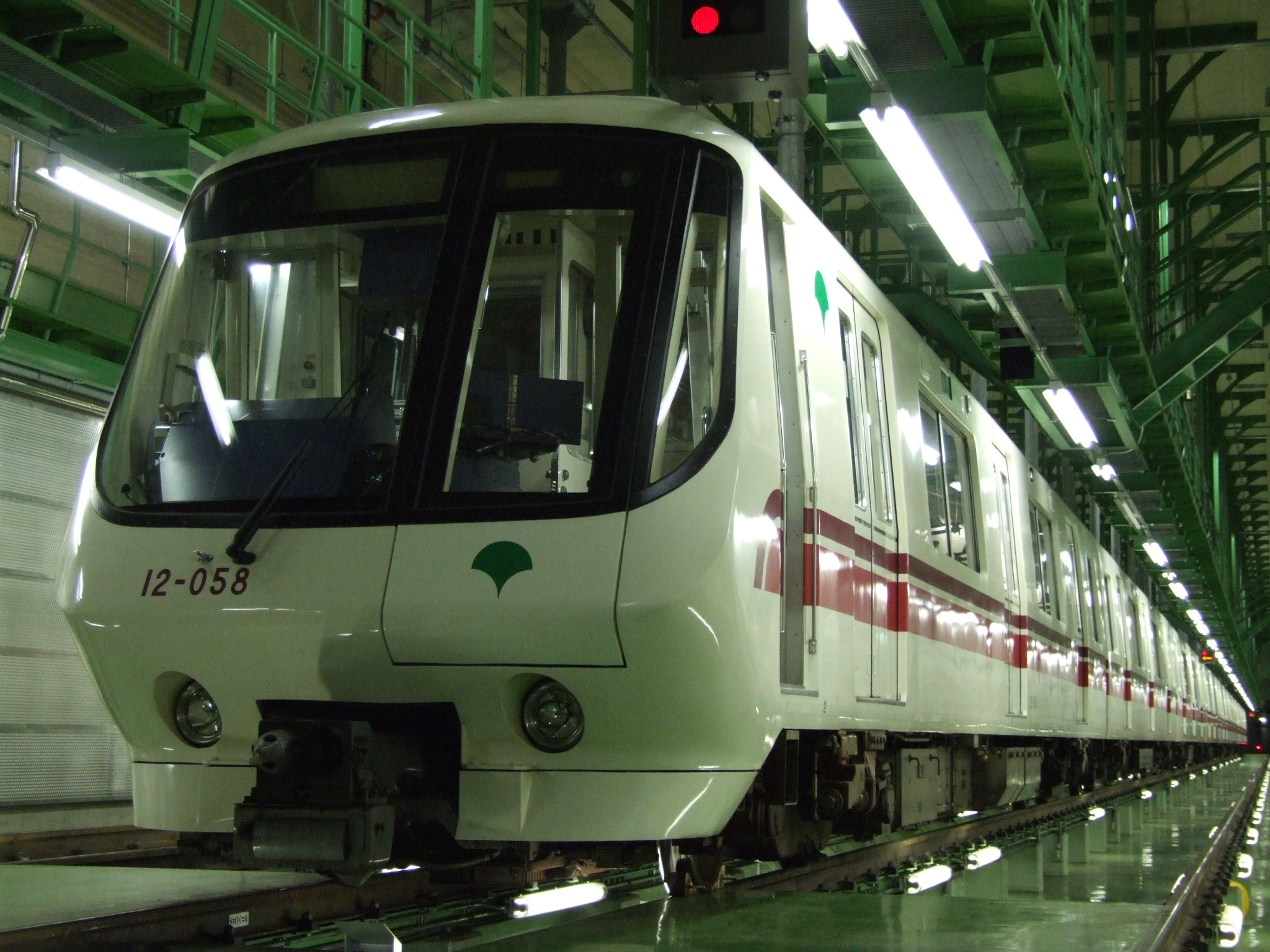 Toei 12-000 series subway EMU set 5 inside Kiba Depot